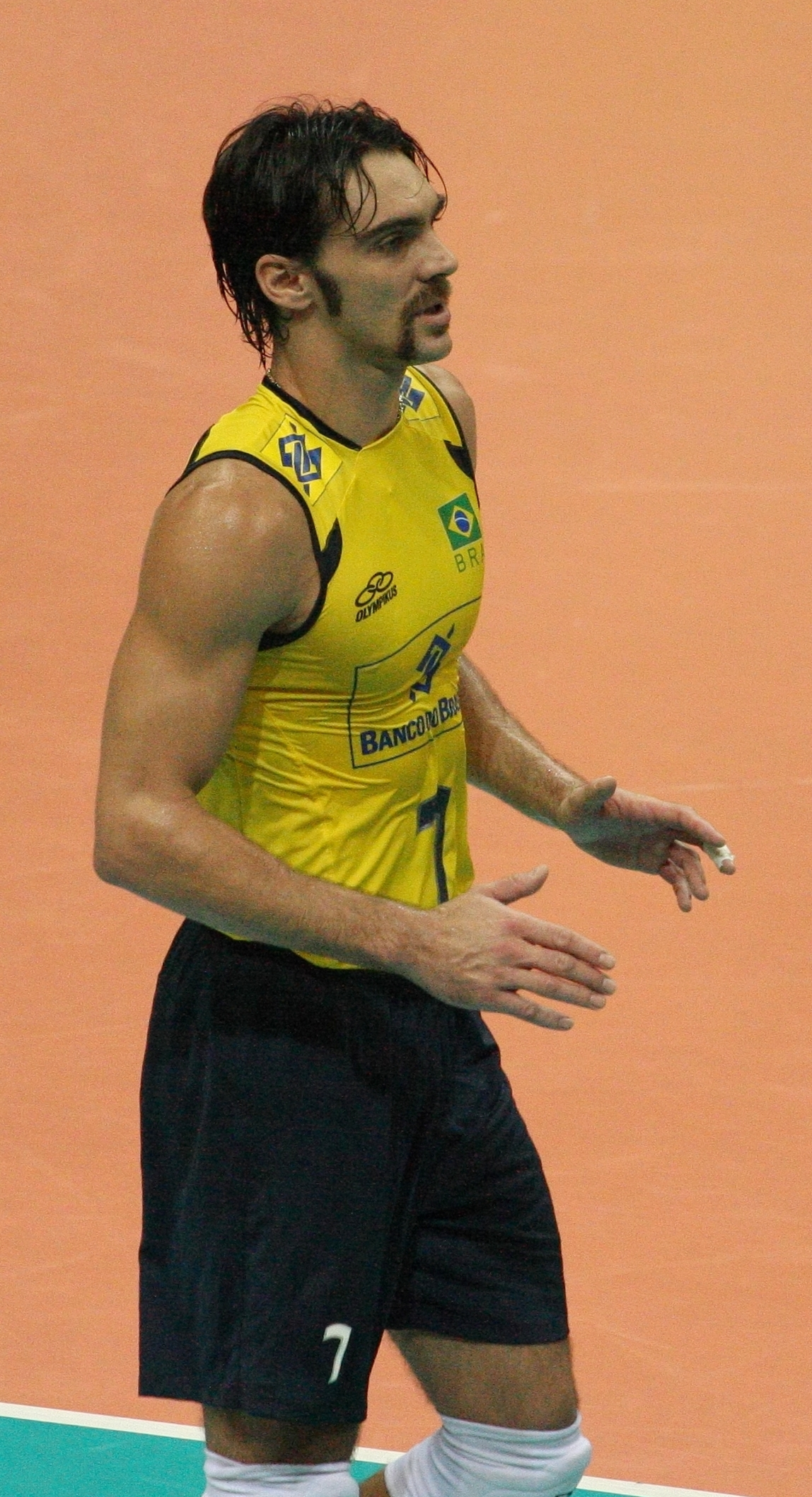 World League Final, Gdańsk 2011 Brazil vs Russia